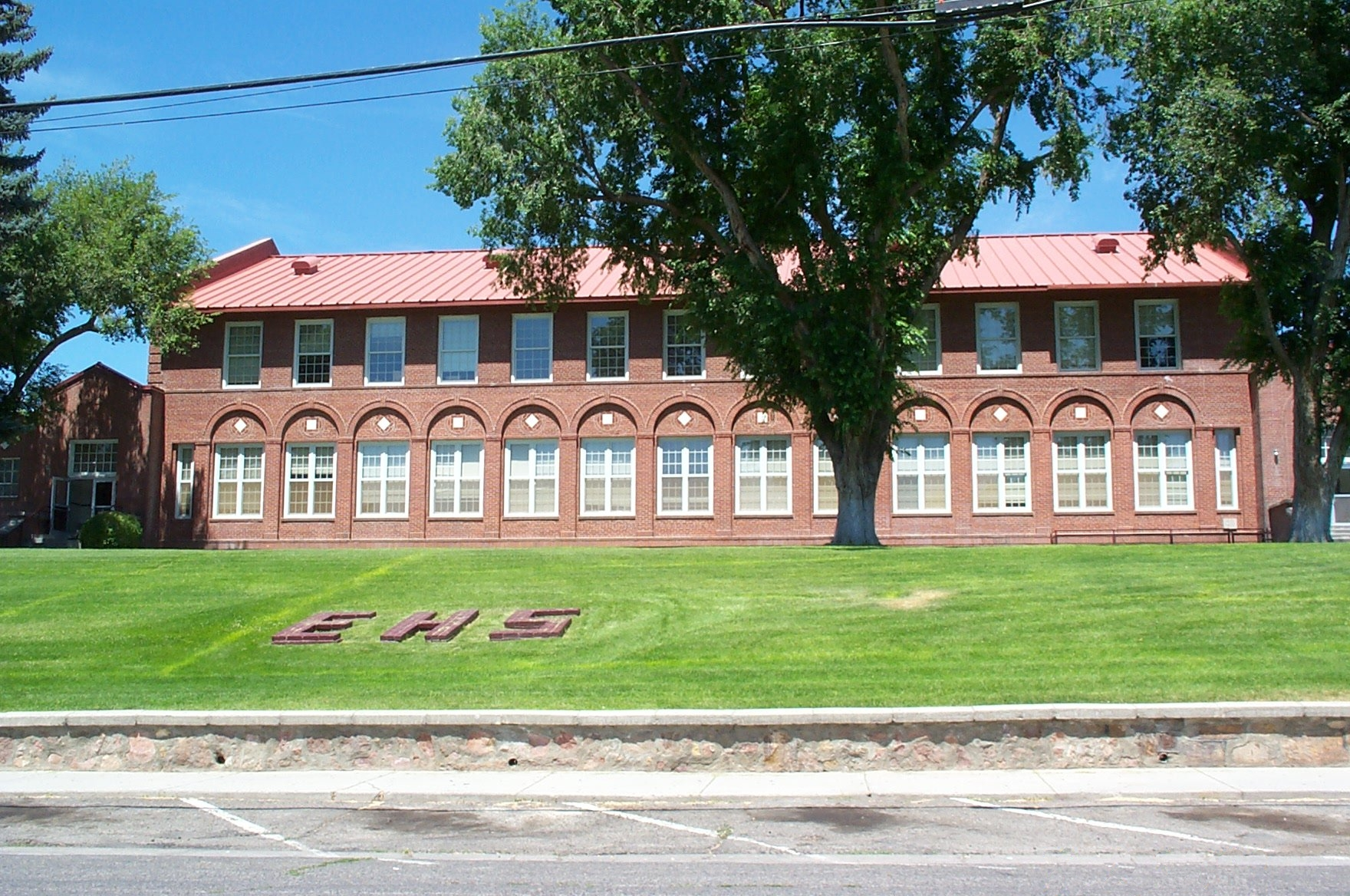 Elko High School's Old Main building. Photograph taken on July 10, 2001 by User:Moschi.